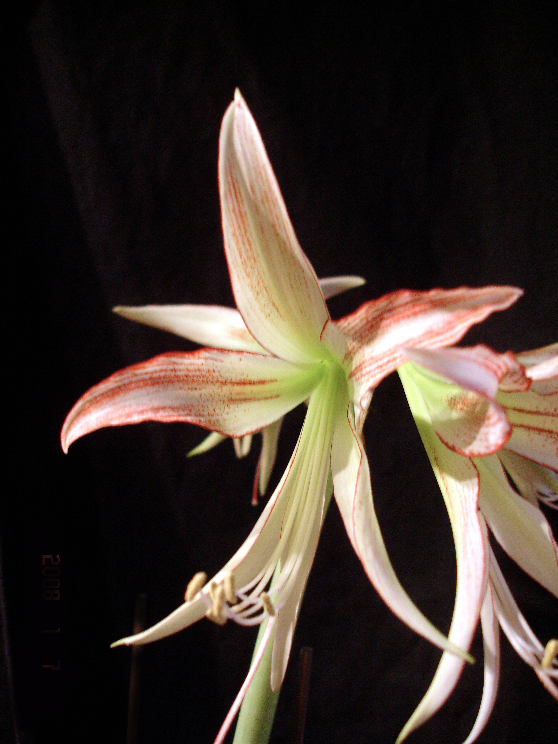 Hippeastrum 'Emerald'